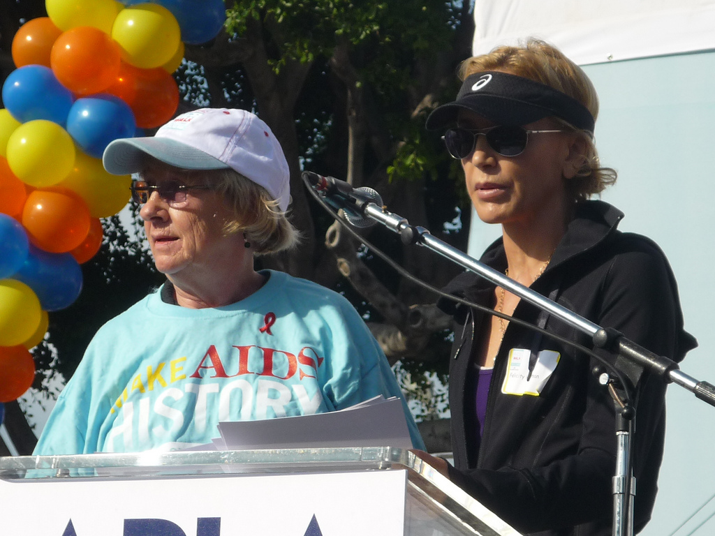 Emmy winners Kathryn Joosten and Felicity Huffman of Desperate Housewives introduced the public officials present.